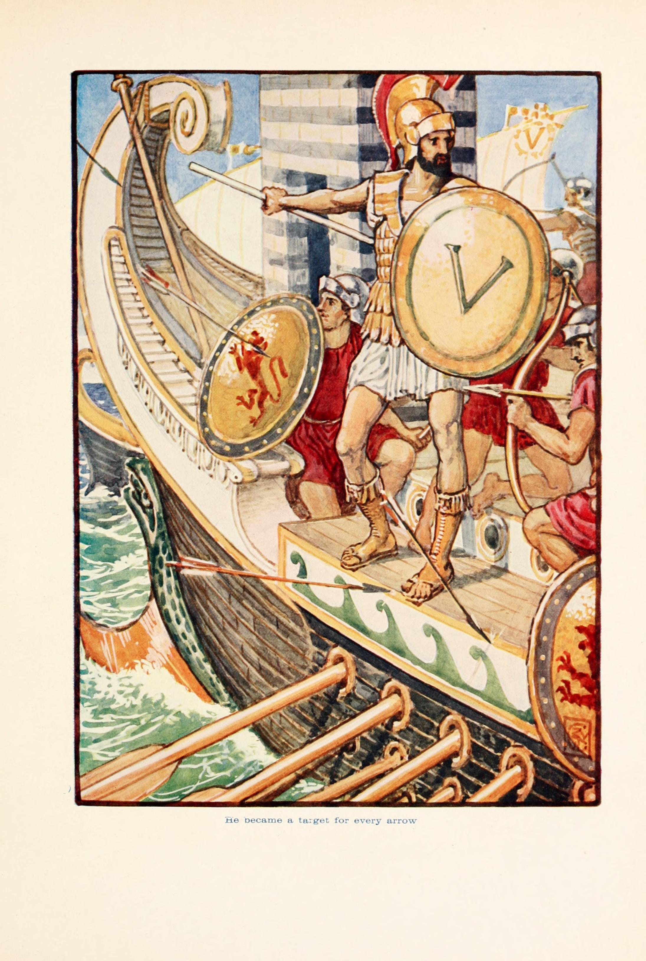 These stories from the history of ancient Greece begin with myths and legends of gods and heroes and end with the conquests of Alexander the Great. The book is accessible and well organized, but it is considerably more detailed than some other introductory texts. It covers Greek history from the age of Mythology to the rise of Alexander, but because of its length we do not recommend it for 5th grade or younger. It is an excellent reference, thoroughly engaging, and a good candidate for a somewhat older student's first foray into Greek history.